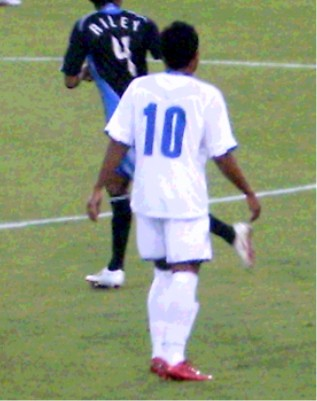 Picture of Ramon Nunez, during a game with the Honduran National Team.